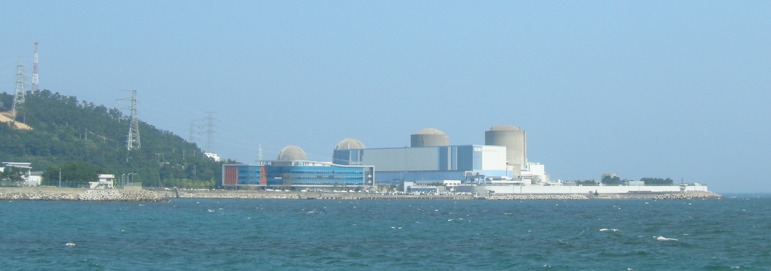 Kori Nuclear Power Plant, Reactors Kori 1, Kori 2, Kori 3, Kori 4 from right to left.